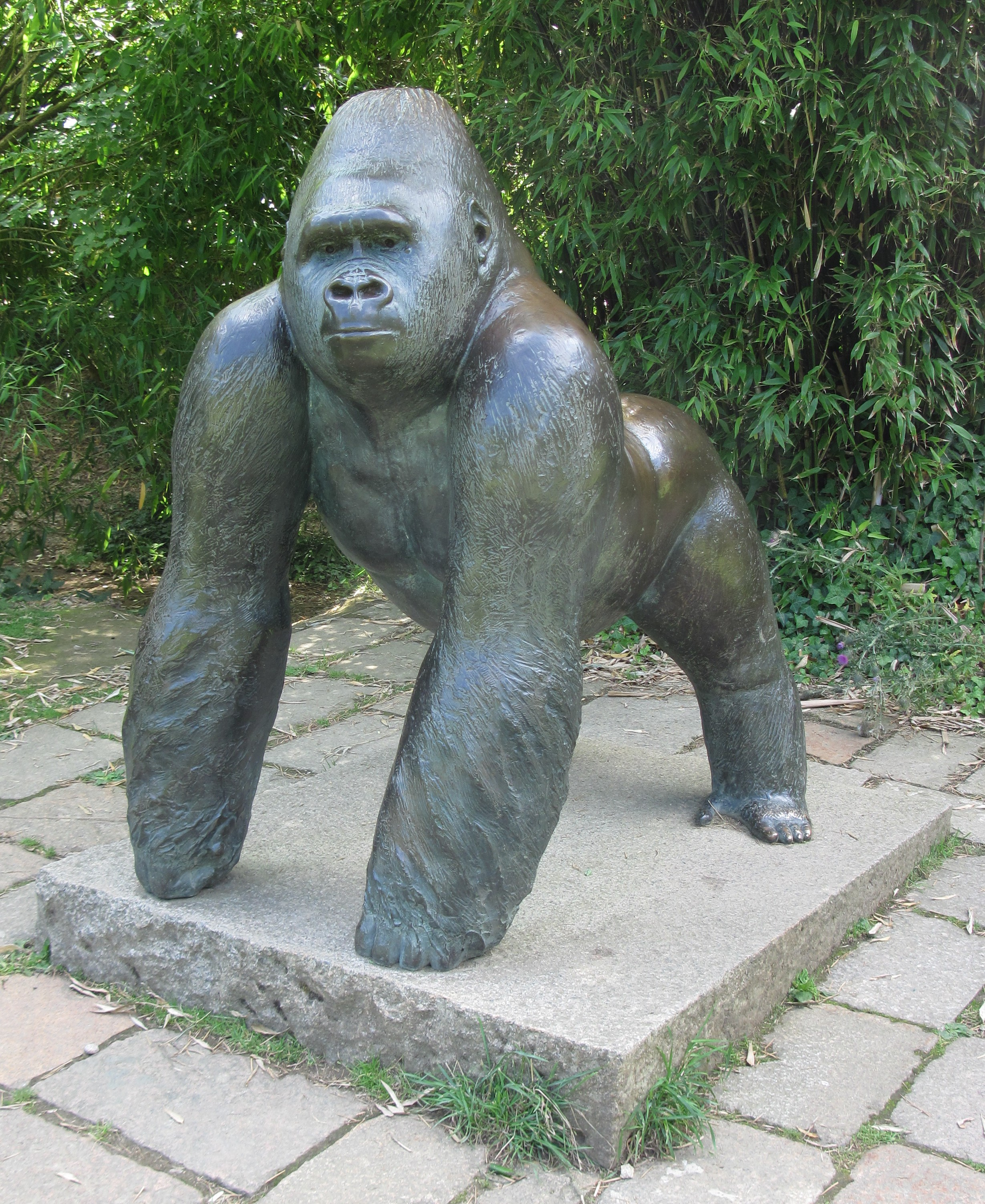 Durrell Wildlife Park, Jersey, August 2013